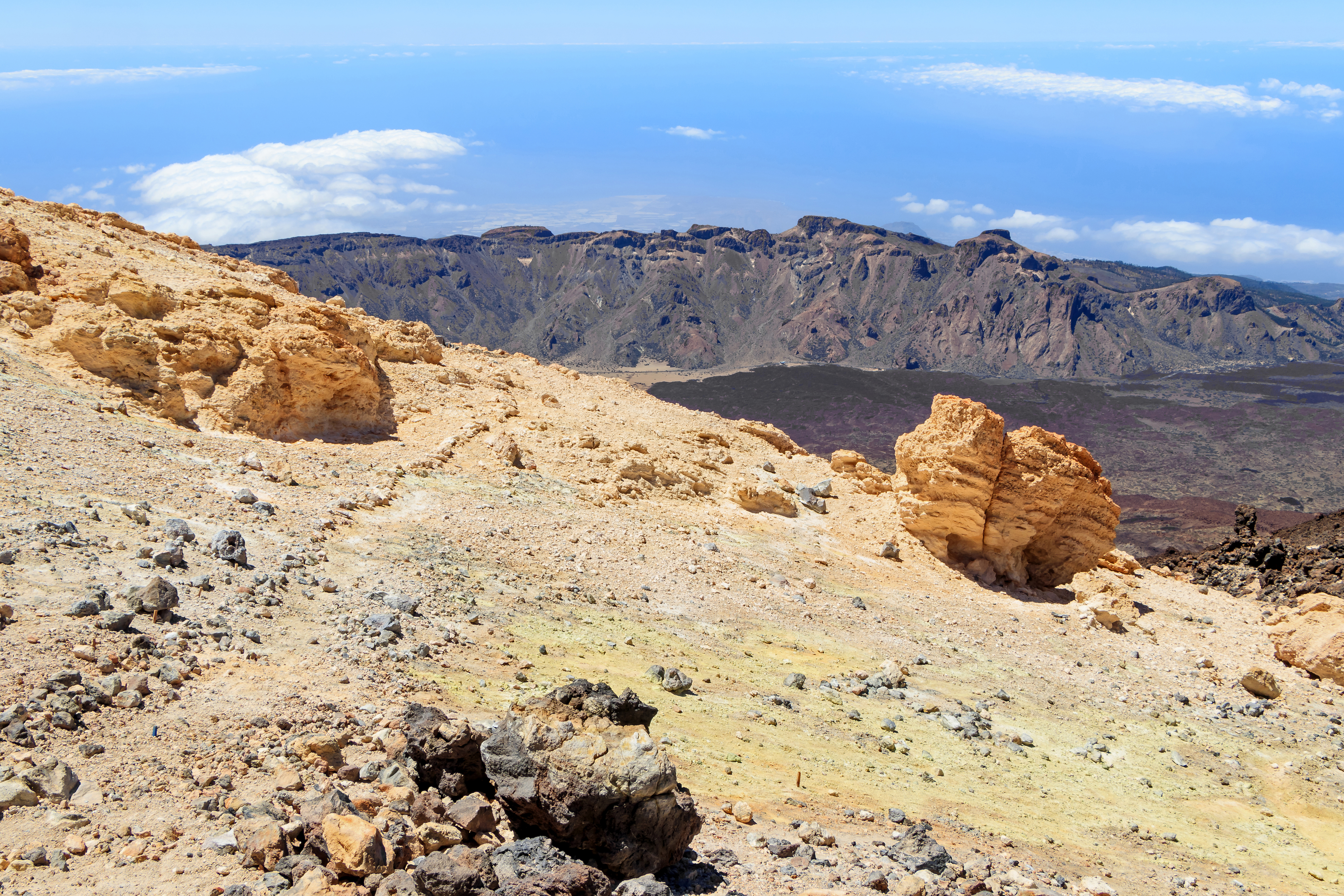 Rocks and sulphur depositions (yellow) near the summit of the Mount Teide , Tenerife, Canary Islands, Spain.